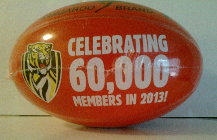 Richmond Football Club (AFL). Sherrin football commemorating achievement of 60,000 members in a season. Distributed free to families at a BBQ/Training Morning at Punt Road Oval on 29 June 2013.